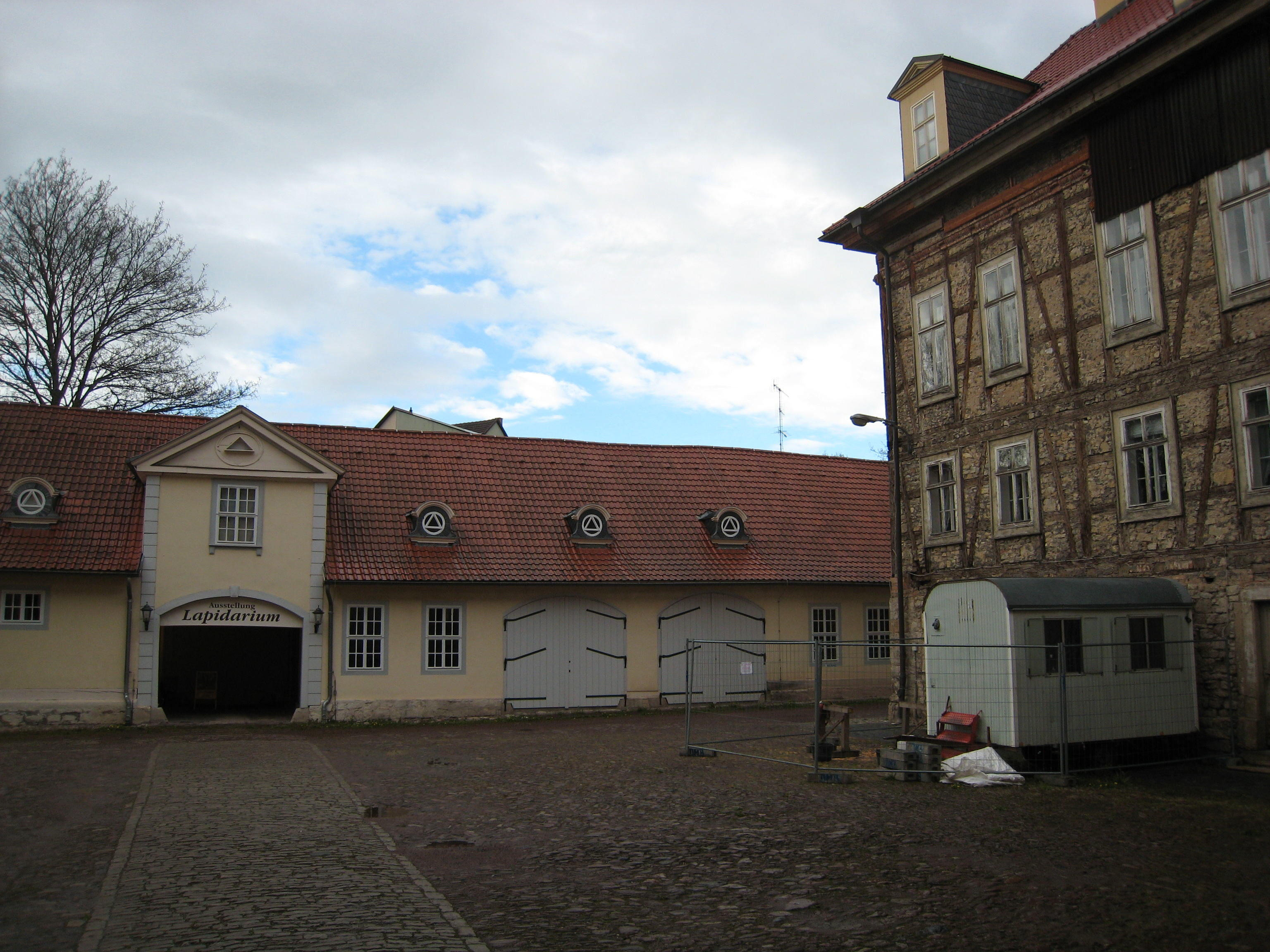 Schlossmuseum, Rückseite mit Lapidarium